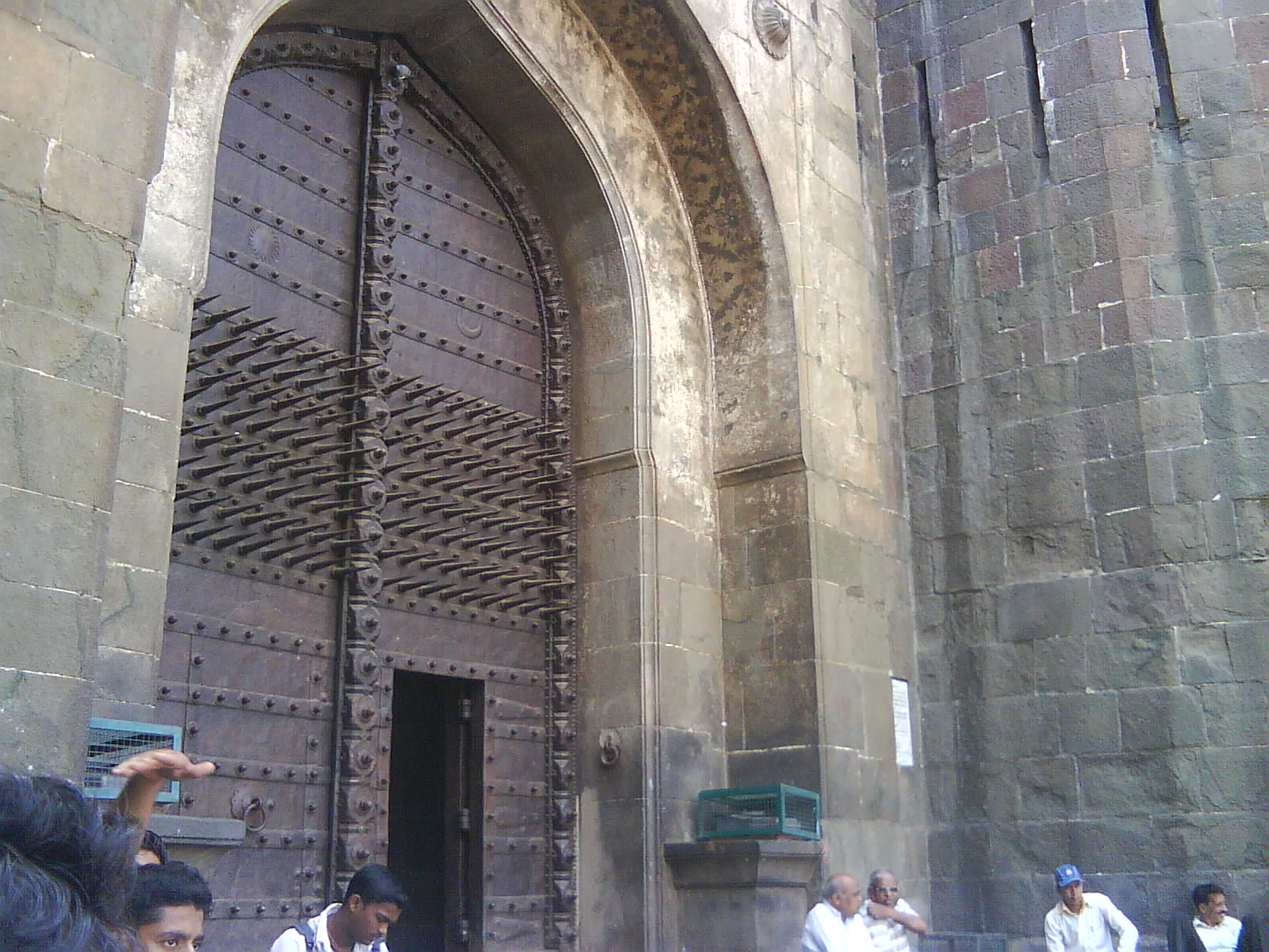 Dilli Darwaza (Delhi Gate),The Dilli Darwaza is the main gate of the complex, and faces north towards Delhi. Chhatrapati Shahu is said to have considered the north-facing fort a sign of Baji Rao's ambitions against the Mughal empire, and suggested that the main gate should be made chhaatiiche, maatiche naahi! (Marathi for of the chests of brave soldiers, not mere mud). The strongly built Dilli Darwaza gatehouse has massive doors, large enough to admit elephants outfitted with howdahs (seating canopies). To discourage elephants charging the gates, each pane of the gate has seventy-two sharp twelve-inch steel spikes arranged in a nine by eight grid, at approximately the height of the forehead of a battle-elephant. Each pane was also fortified with steel cross members, and borders were bolted with steel bolts having sharpened cone heads. The bastions flanking the gatehouse has arrow-loops and machicolation chutes through which hot substances could be poured onto offending raiders. The right pane has a small man-sized door for usual entries and exits, too small to allow an army to enter rapidly. Shaniwar Wada was built by contractor from Rajasthan known as 'Kumawat Kshatriya', after completing construction these people well known by name 'Naik'. The name 'Naik' was given to them by Peshwa. Even if the main gates were to be forced open, a charging army would need to turn sharply right, then sharply left, to pass through the gateway and into the central complex. This would provide a defending army with another chance to attack the incoming army, and to launch a counterattack to recapture the gateway.